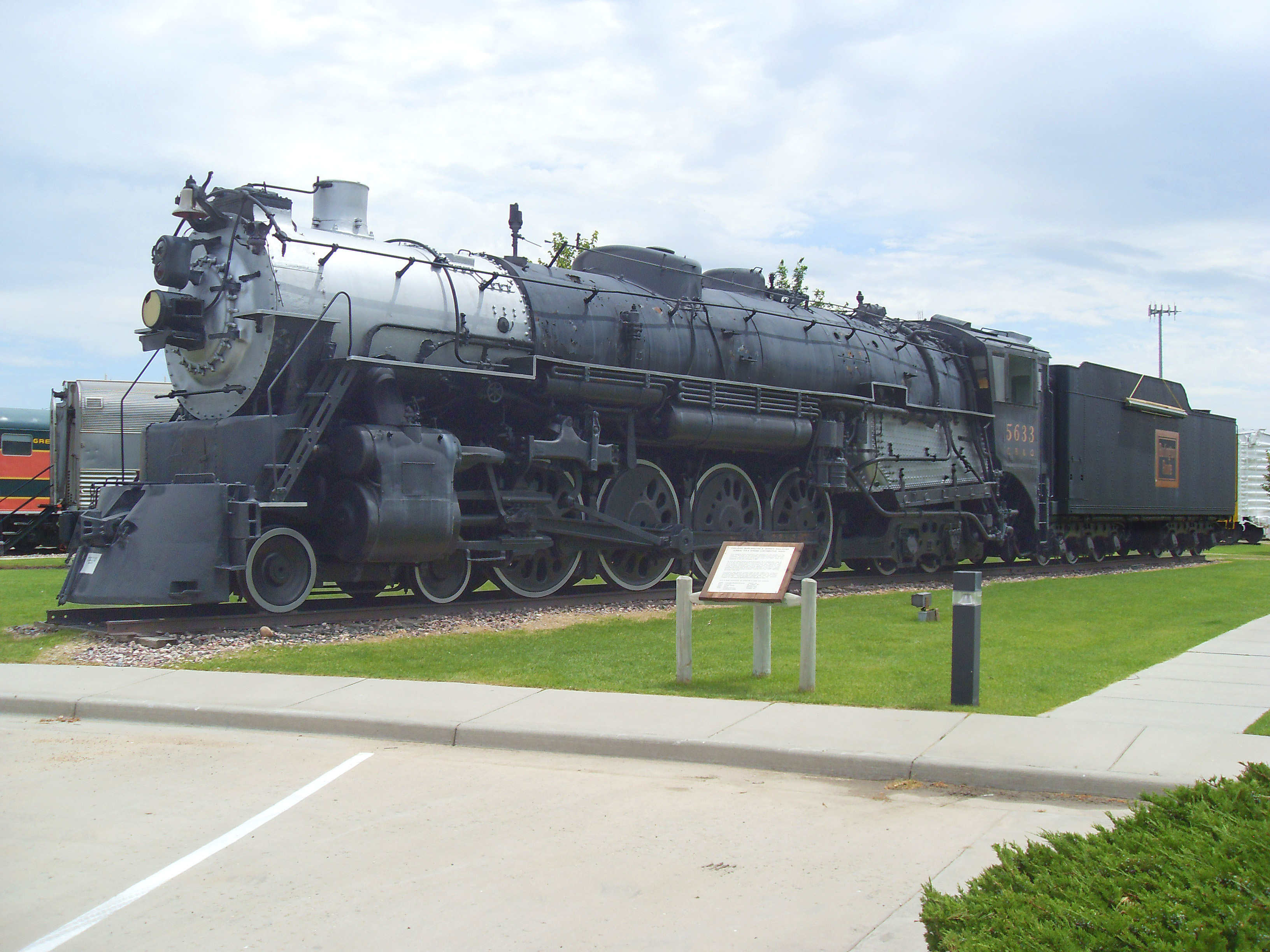 Chicago, Burlington and Quincy Railroad steam locomotive in Douglas, Wy, USA. Build September 1940 until 1956 in service, moved to Douglas in 1962